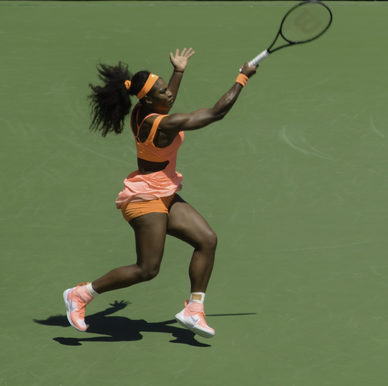 Serena Williams won her eighth Key Biscayne, Miami Open title while she has not been beaten in 2015, this is her 21-match winning in a row! ...only three women in the history of tennis had won an event eight times or more: Chris Evert, Martina Navratilova and Steffi Graf, which is about as esteemed list as you can get. After a dominant 6-2, 6-0 over Carla Suarez Navarro in the finals of the Miami Open, Serena Williams can be added to it. Ref: Despite Saturday's hammering, Suarez Navarro can be happy with her week in Miami where she captured some big scalps including that of Serena's elder sister Venus Williams in the quarter finals. Ref: Key Biscayne, Miami, Florida. 5 6 ISO: 100